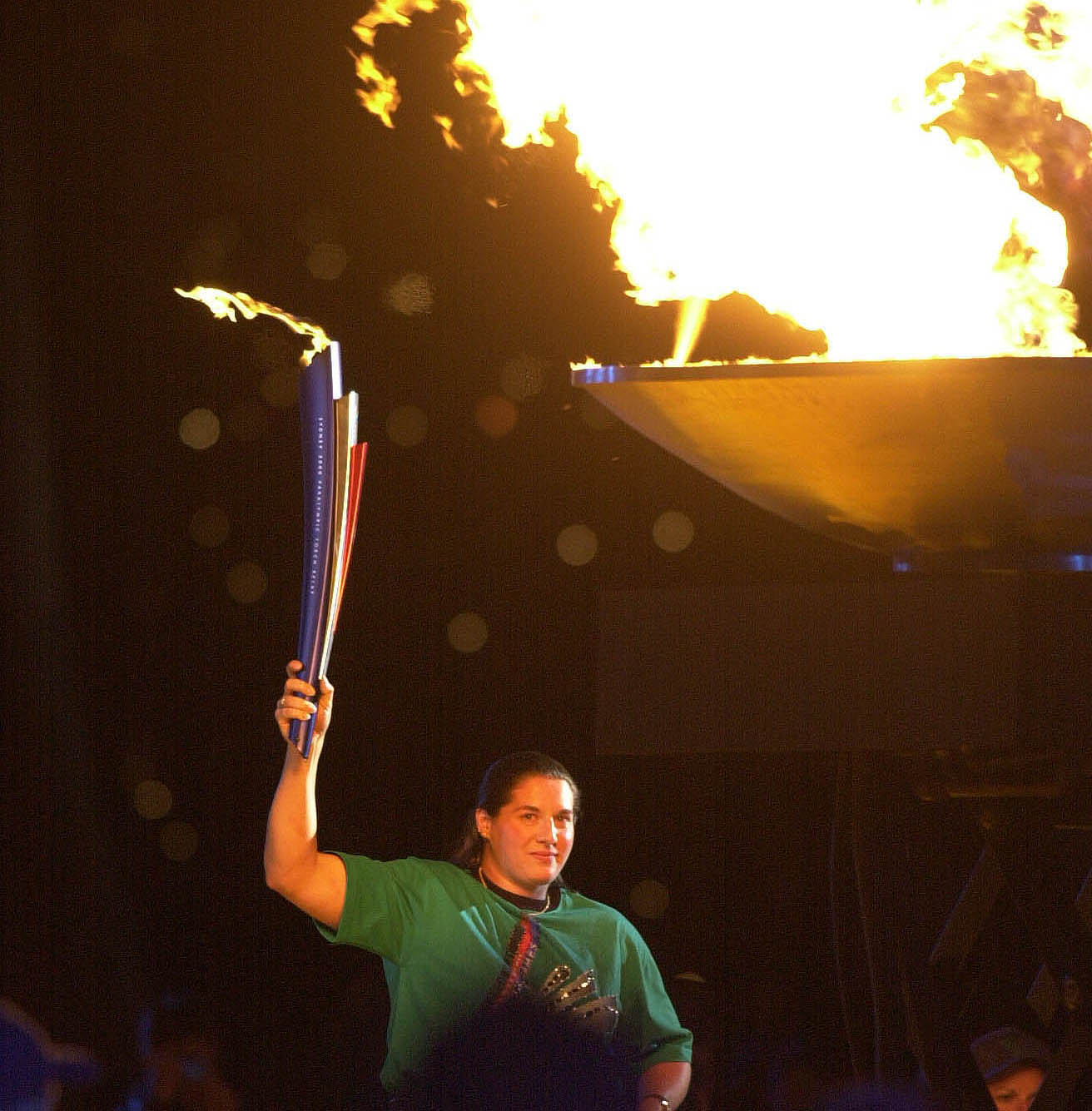 Australian athletics competitor Louise Sauvage lights the cauldron with the Paralympic Flame at the finish of the torch relay, 2000 Sydney Paralympic Games Opening Ceremony